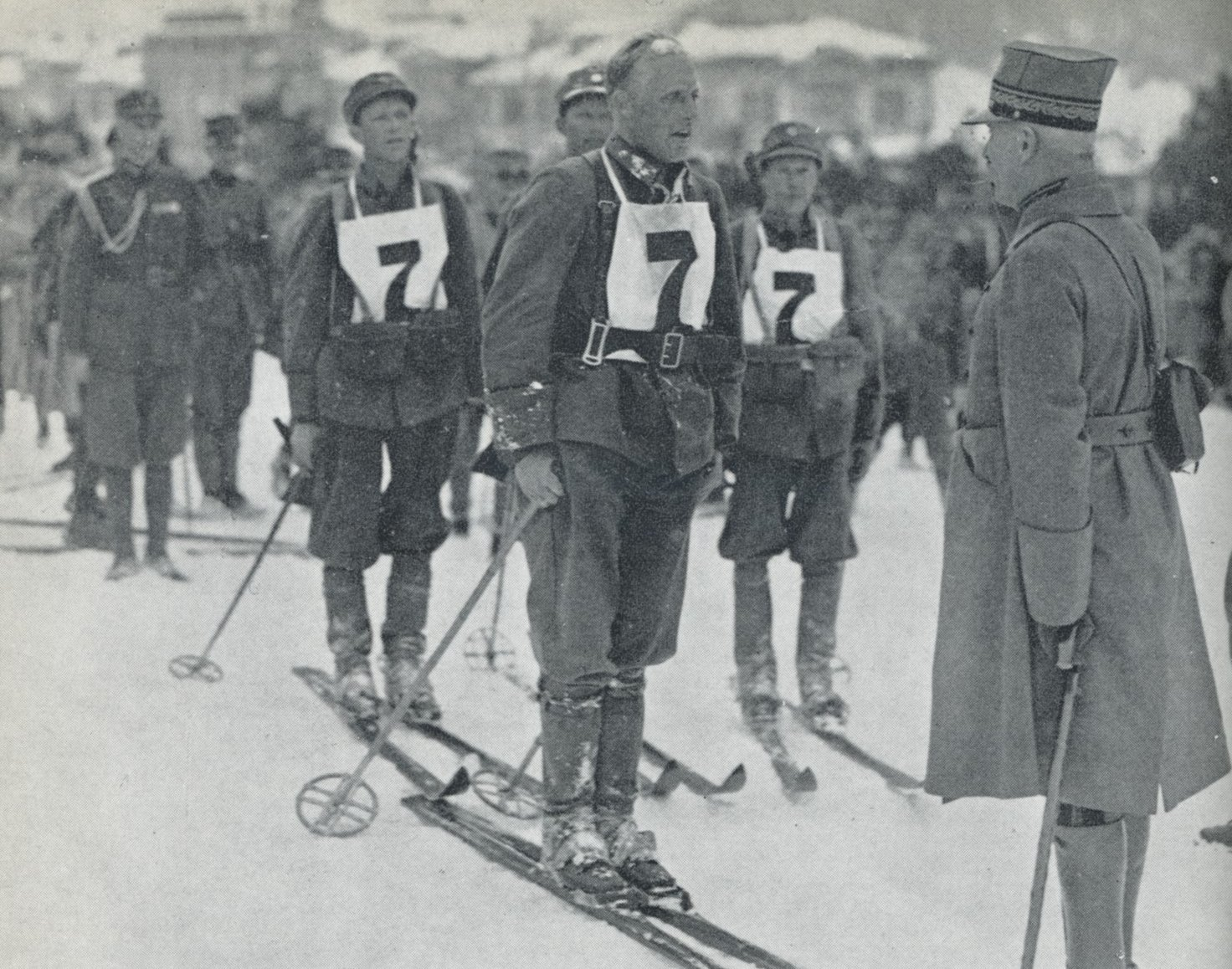 The Norwegian team after winning the military patrol in the 1928 Winter Olympics. Lieutenant Ole Reistad in front.